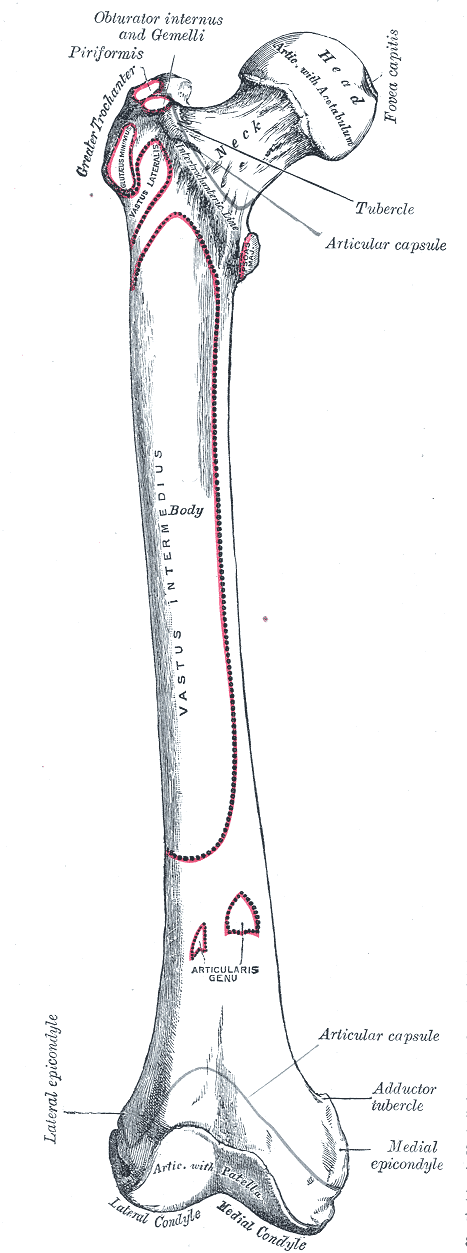 Front of femur